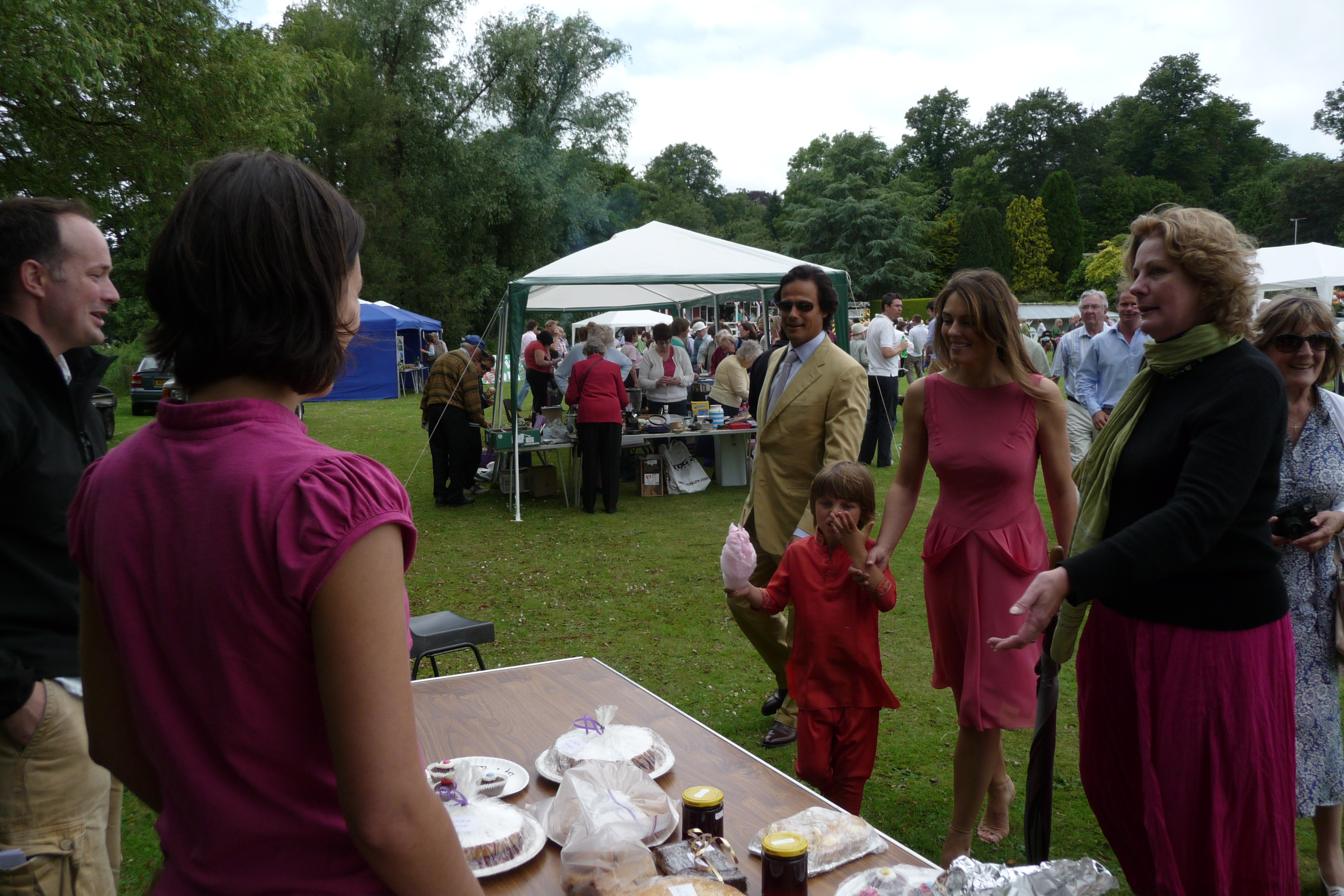 Model Elizabeth Hurley at the annual Ampney Crucis Village Fete 2008 with family.